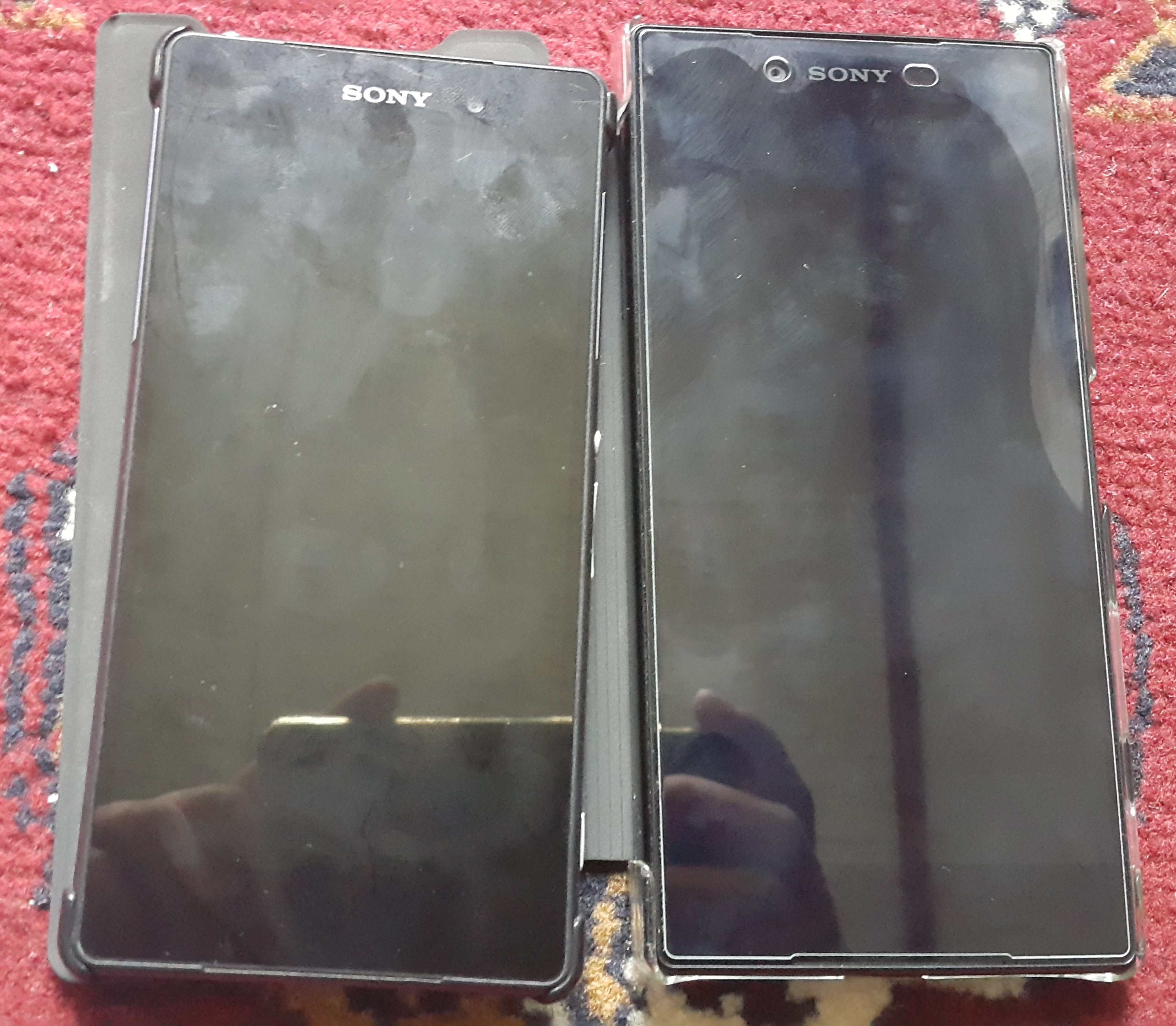 Sony Xperia Z2 left and Z5 dual right.